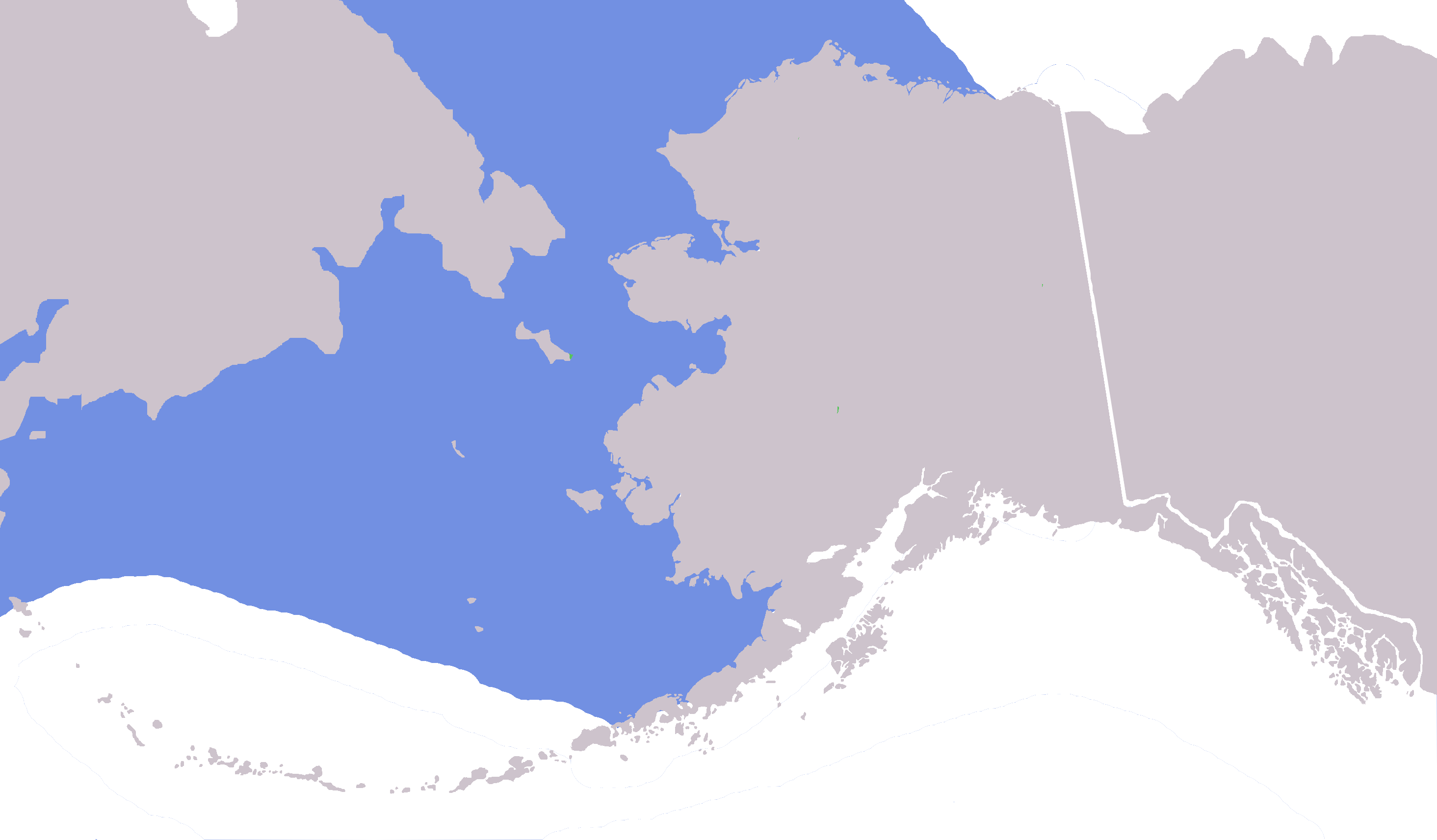 Range of Phoca largha in Alaska.